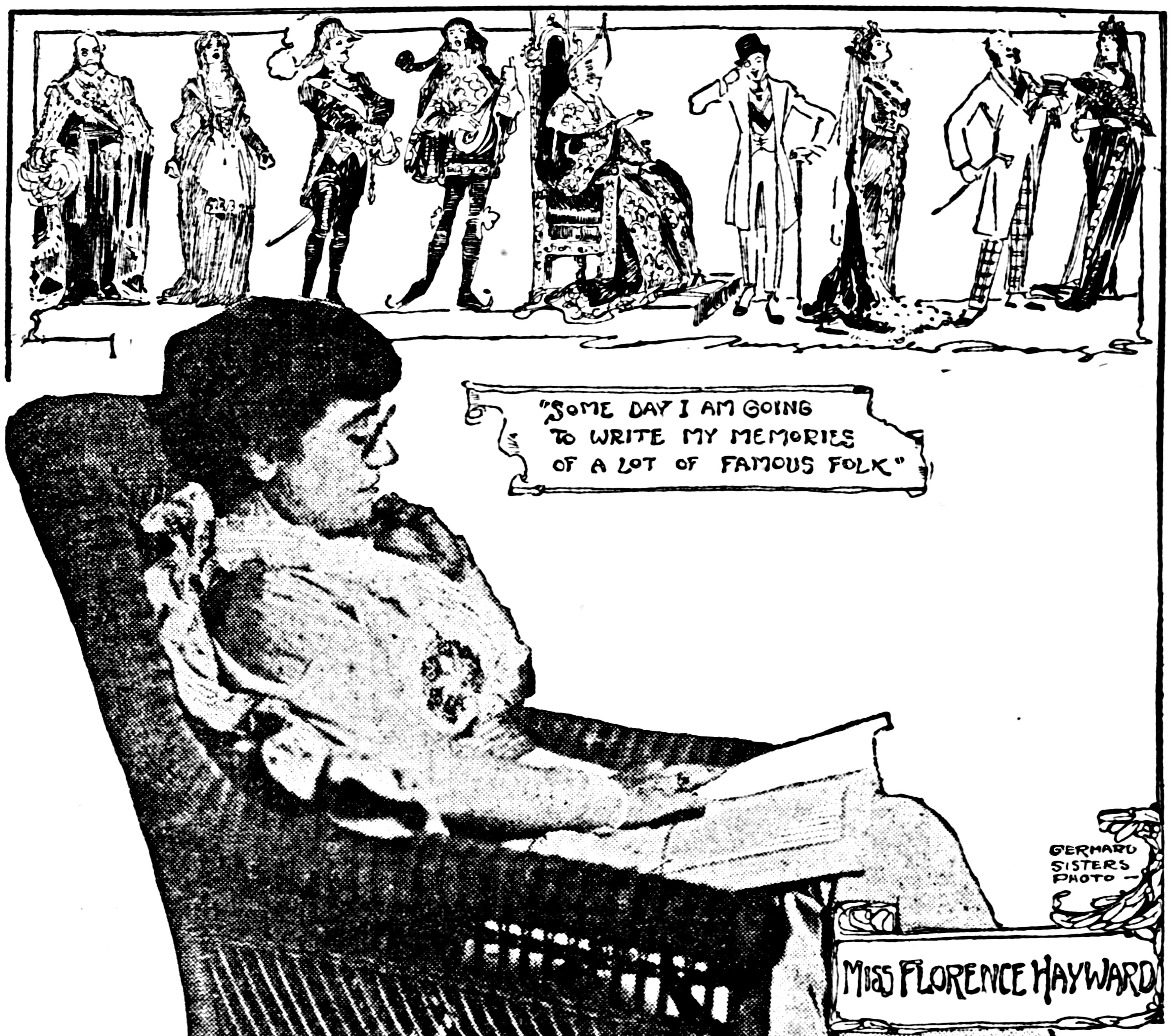 Florence Hayward is seated in a photo by the Gerhard Sisters in this composite made by Marguerite Martyn for the St. Louis Post-Dispatch and printed on July 6, 1914, with drawings by Martyn across the top of the figures whom Hayward had met.